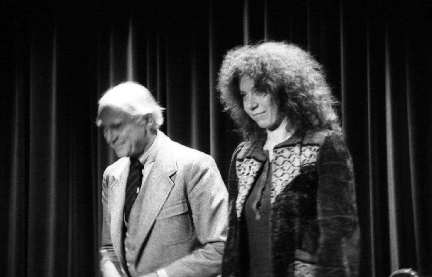 German humorist Vicco von Bülow (alias Loriot) and actress Evelyn Hamann in the early 1980s after a reading of Loriots dramatische Werke in Dortmund.